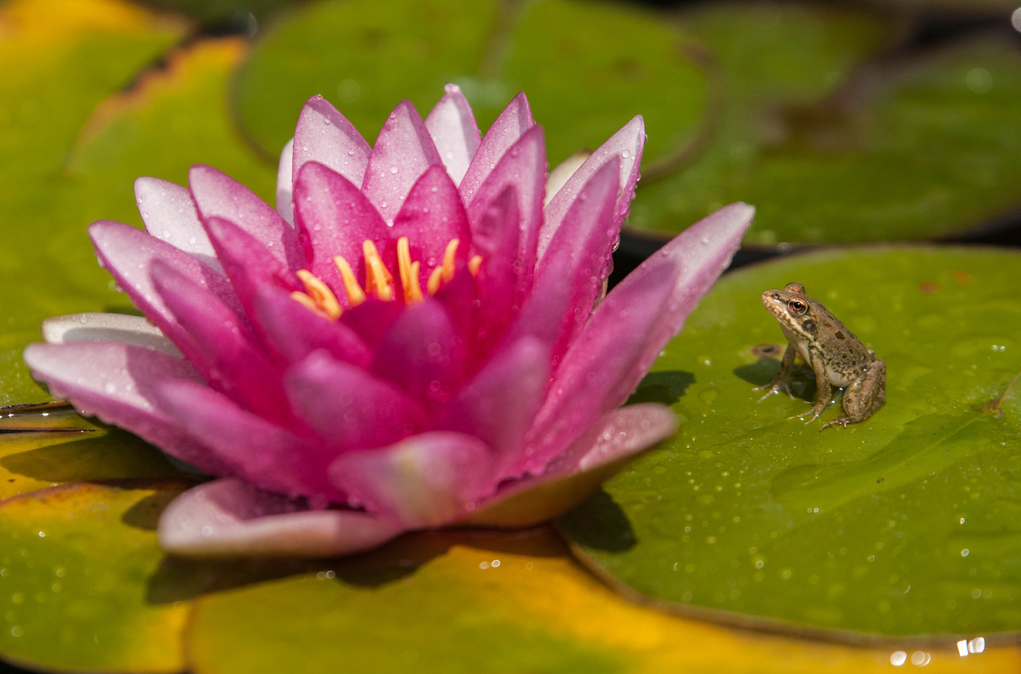 500px provided description: The Frog And The Water Lily [#yellow ,#water ,#frog ,#flower ,#sun ,#beautiful ,#animal ,#green ,#vienna ,#austria ,#zoo ,#sch?nbrunn]